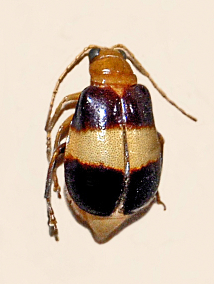 Aulacophora dorsalis from New Guinea. Museum specimen